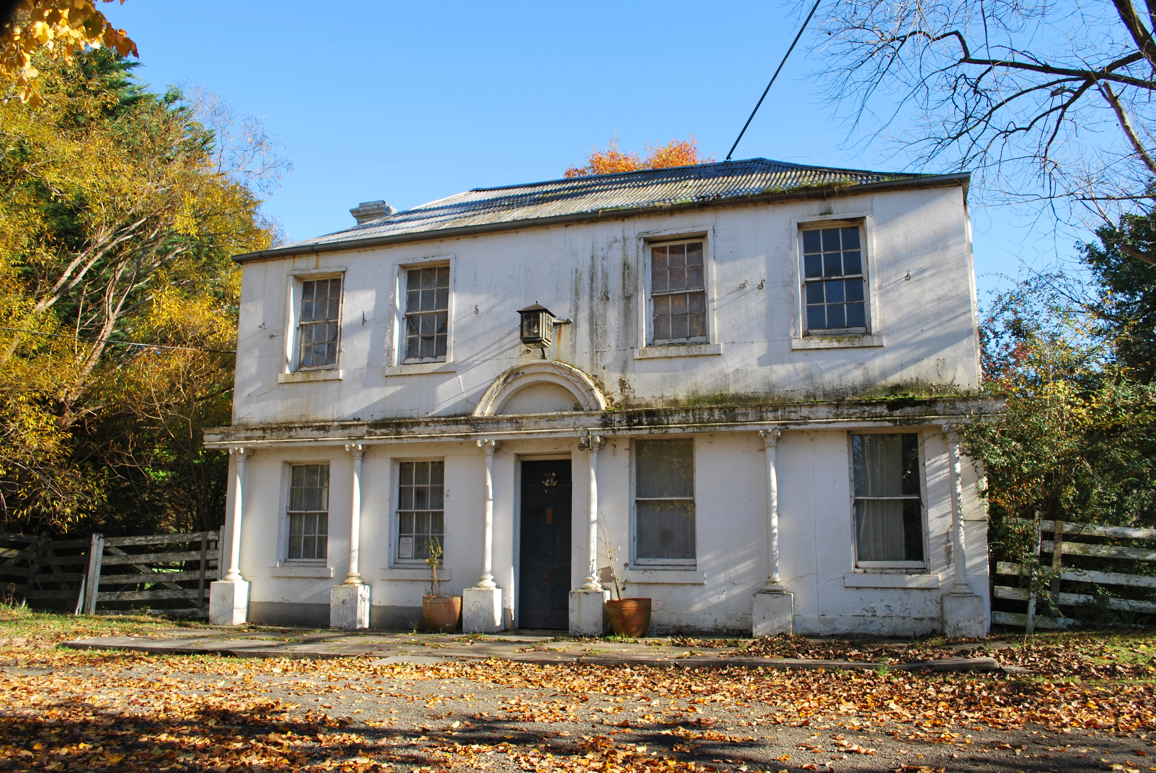 A building at Woodend. Victoria